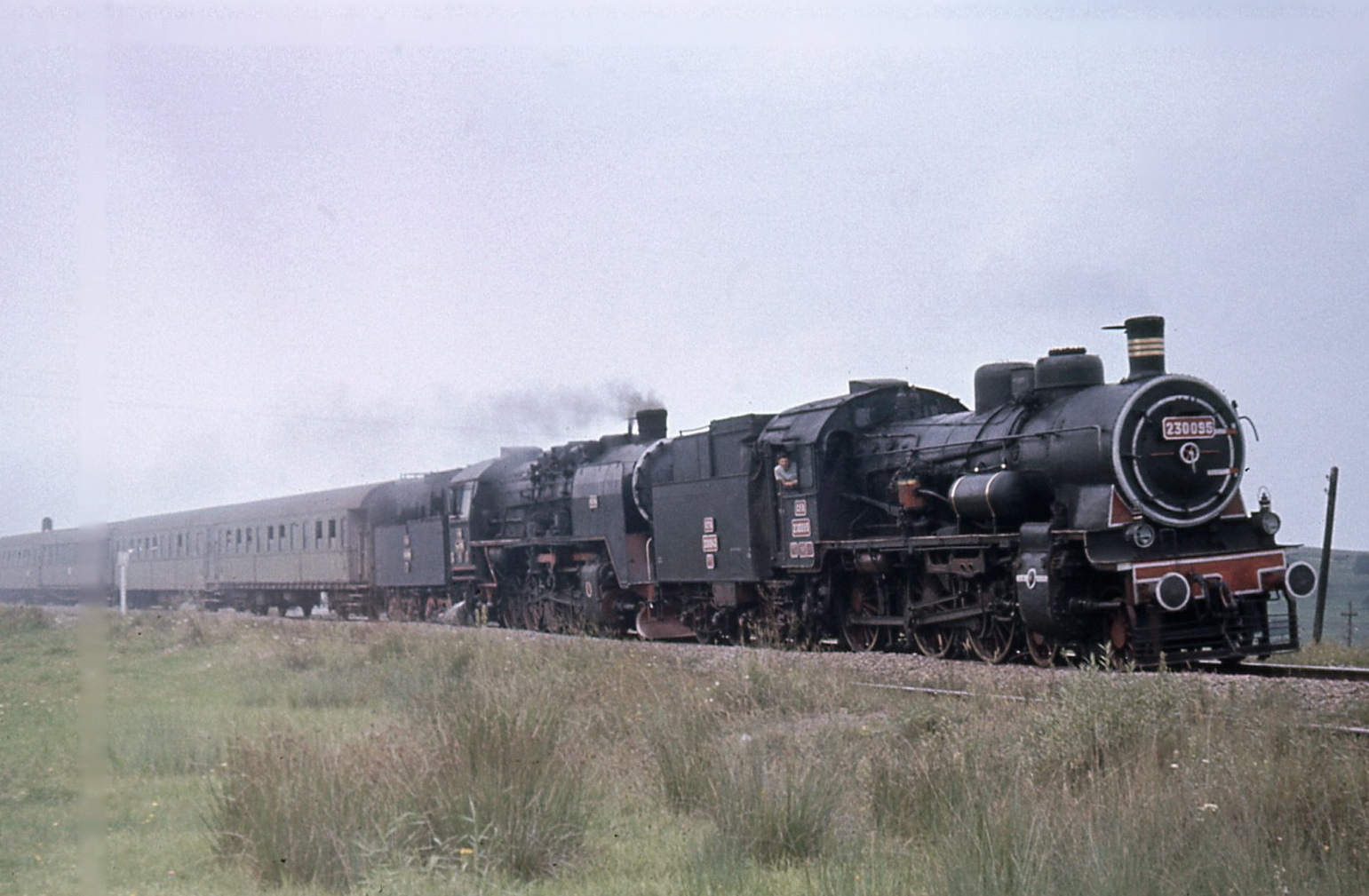 Double-headed steam train at Sălişte near Sibiu in Romania, with 230 and 150 class locomotives